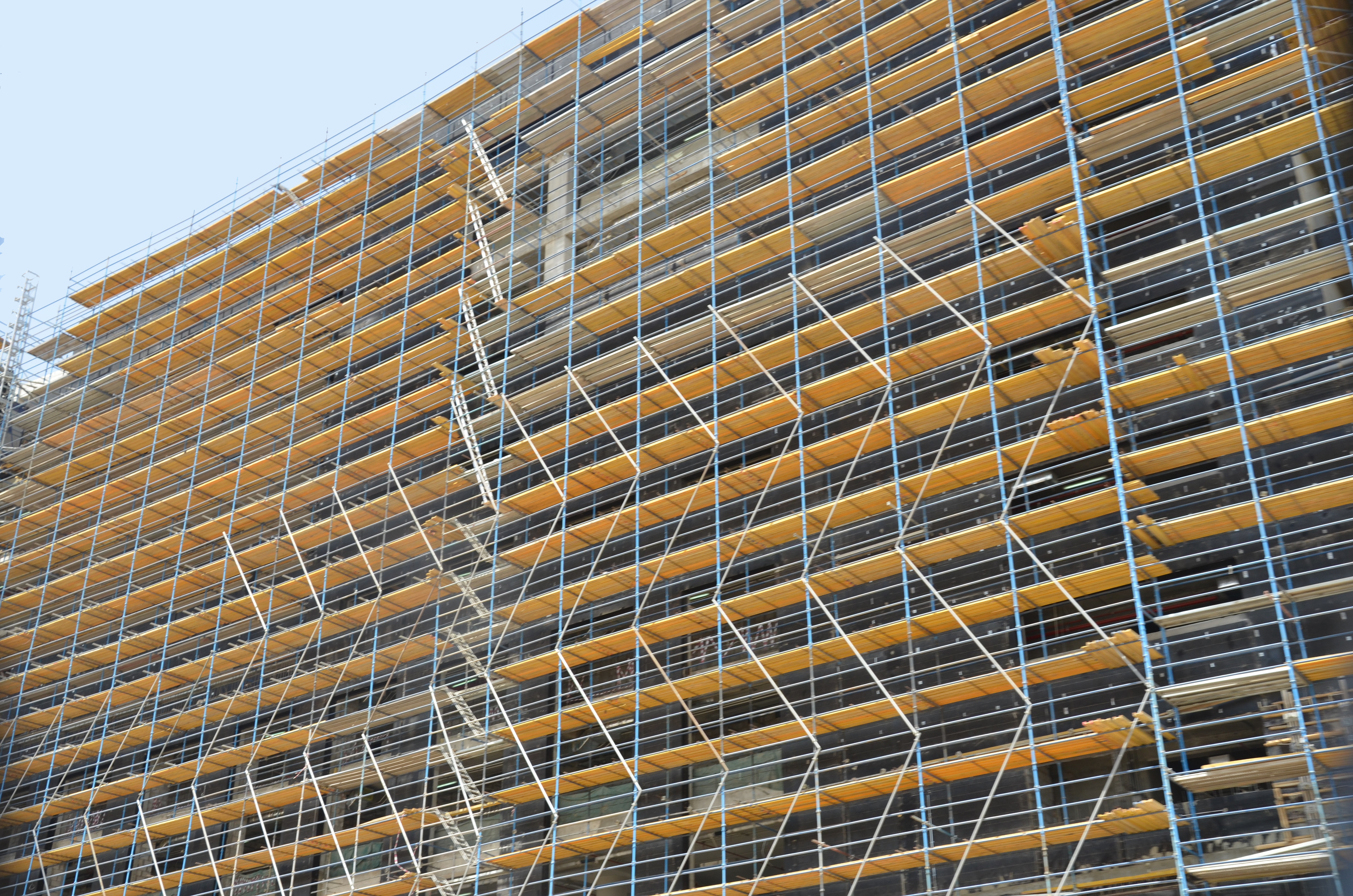 Building Under Construction king Saud University Riyadh